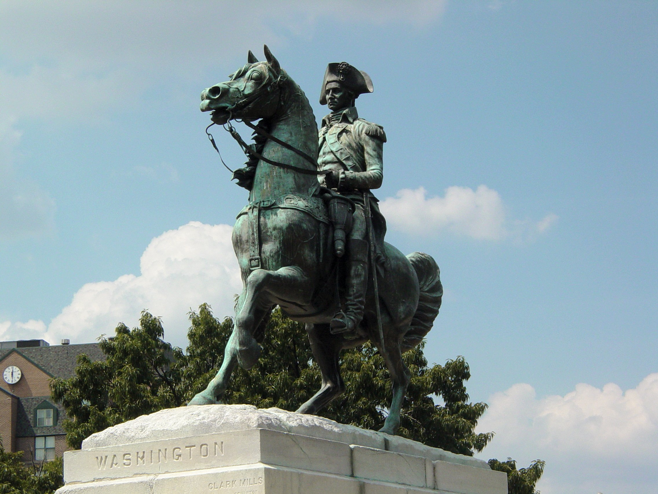 Equestrian statue of George Washington by Clark Mills in Washington Circle in Washington DC.